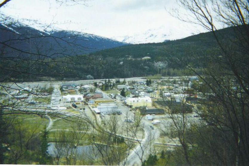 Skagway, Alaska seen from atop a nearby hill in 1999